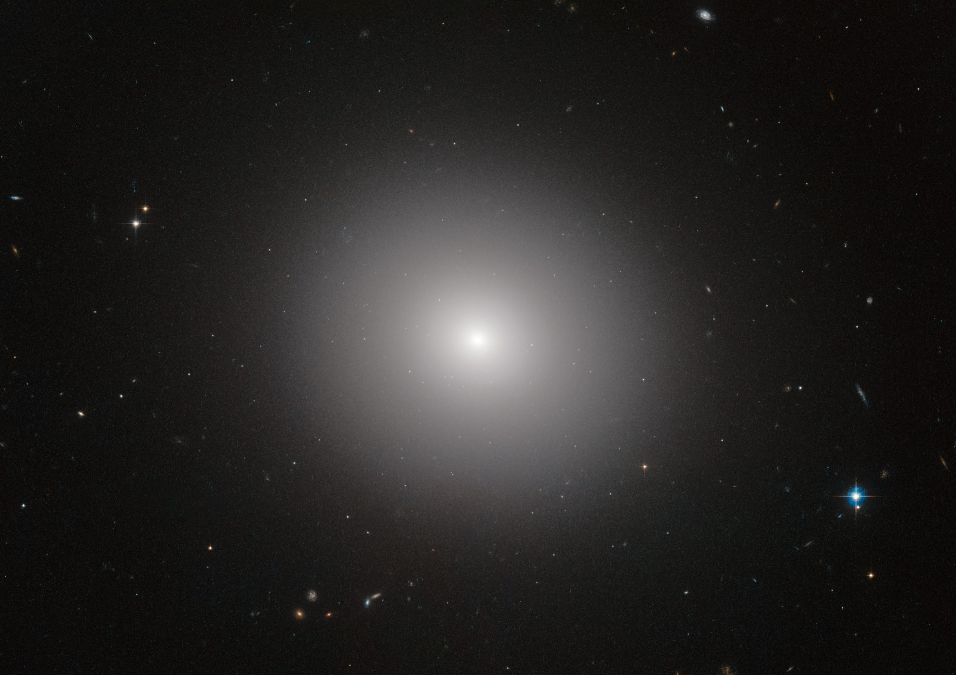 This NASA/ESA Hubble Space Telescope image shows an elliptical galaxy known as IC 2006. Massive elliptical galaxies like these are common in the modern Universe, but how they quenched their once furious rates of star formation is an astrophysical mystery. Now, the NASA/ESA Hubble Space Telescope and ESO's Very Large Telescope (VLT) have revealed that three billion years after the Big Bang, these types of galaxies still made stars on their outskirts, but no longer in their interiors. The quenching of star formation seems to have started in the cores of the galaxies and then spread to the outer parts.